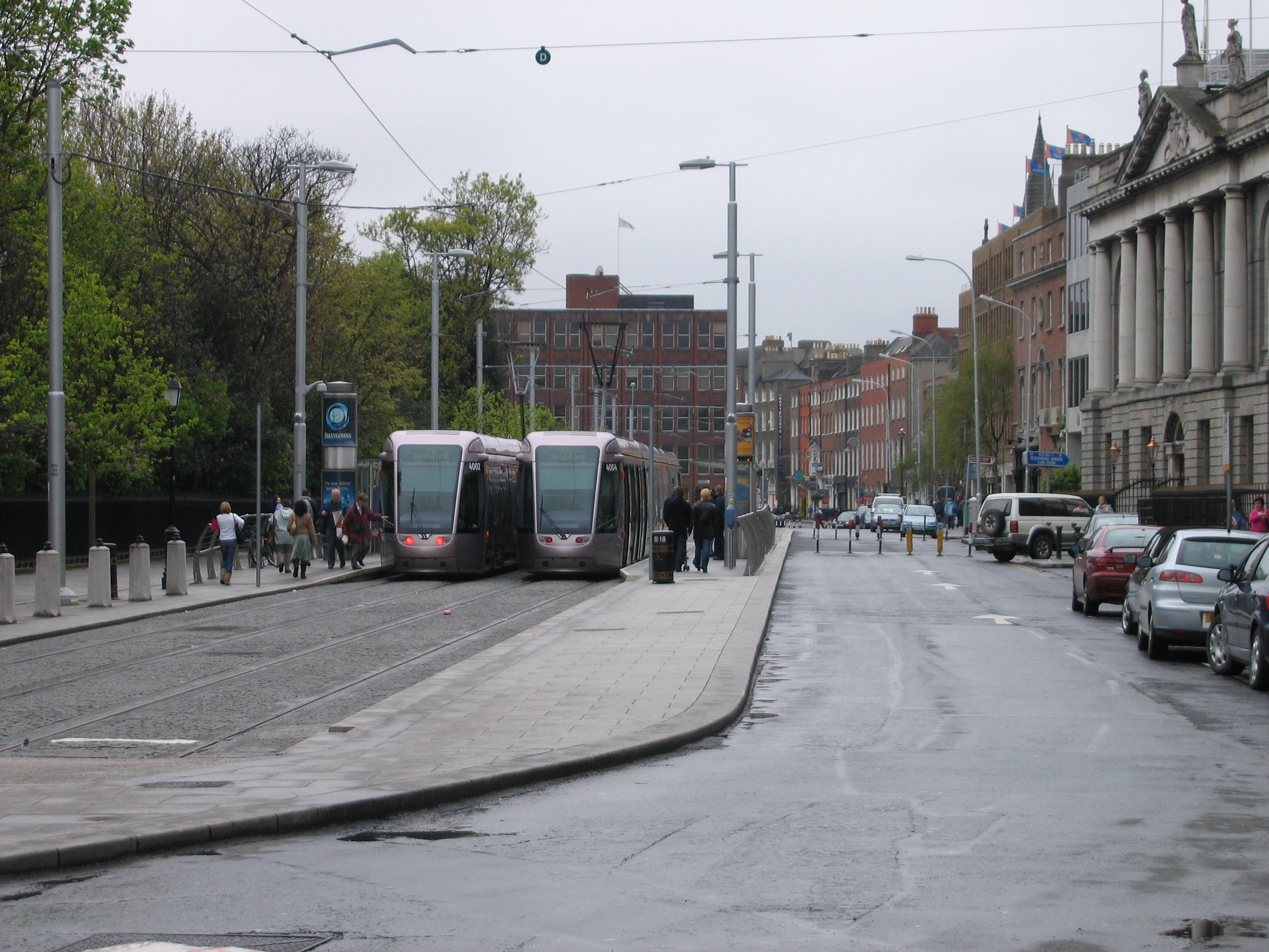 Luas Green Line terminus in St Stephen's Green